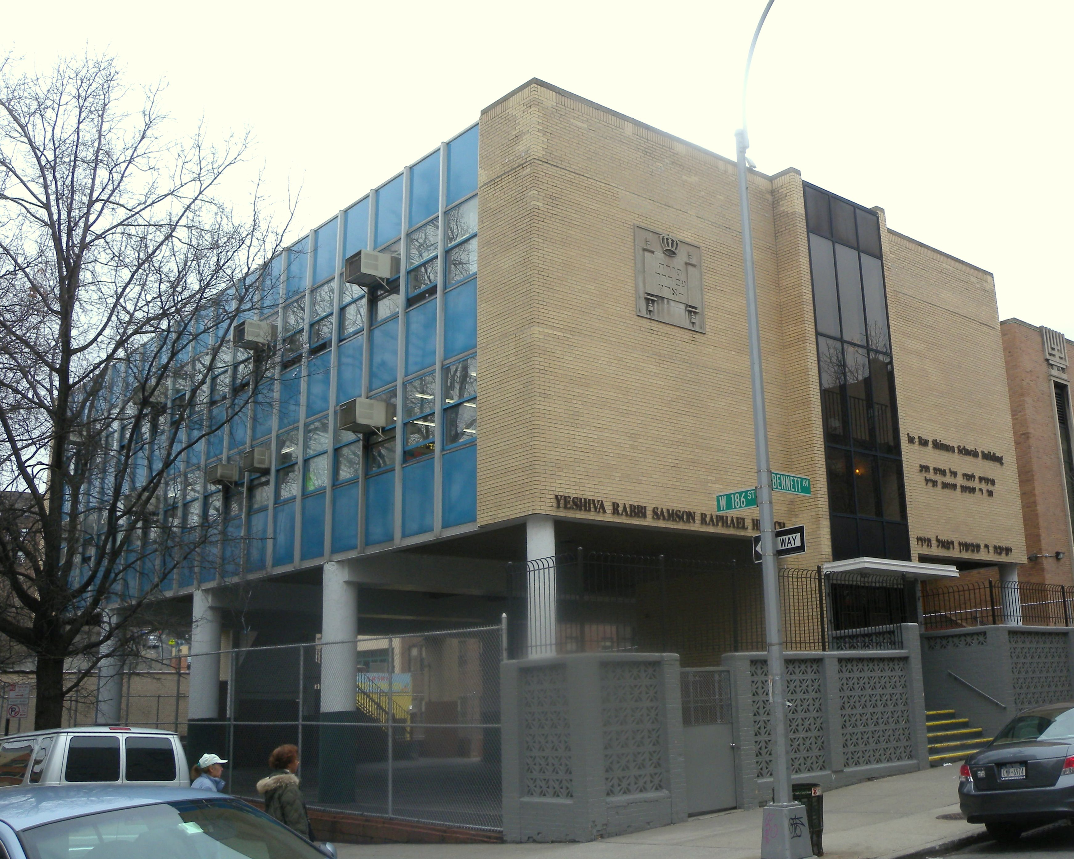 Looking west across 186th St and Bennette Avenue at Yeshiva Hirsch building on a cloudy midday.